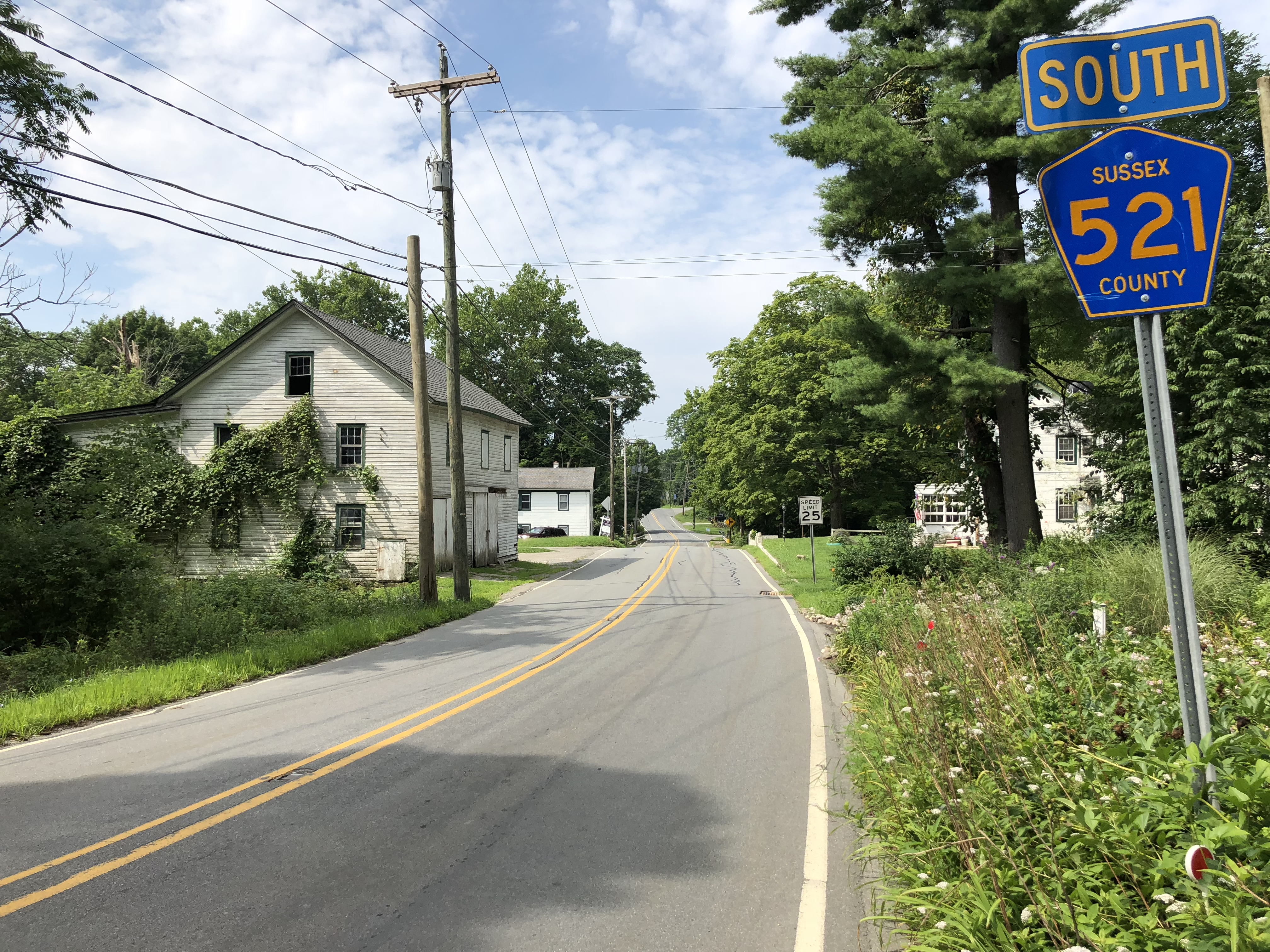 View south along Sussex County Route 521 (West Shore Drive) at Spout Hill Road in Stillwater Township, Sussex County, New Jersey